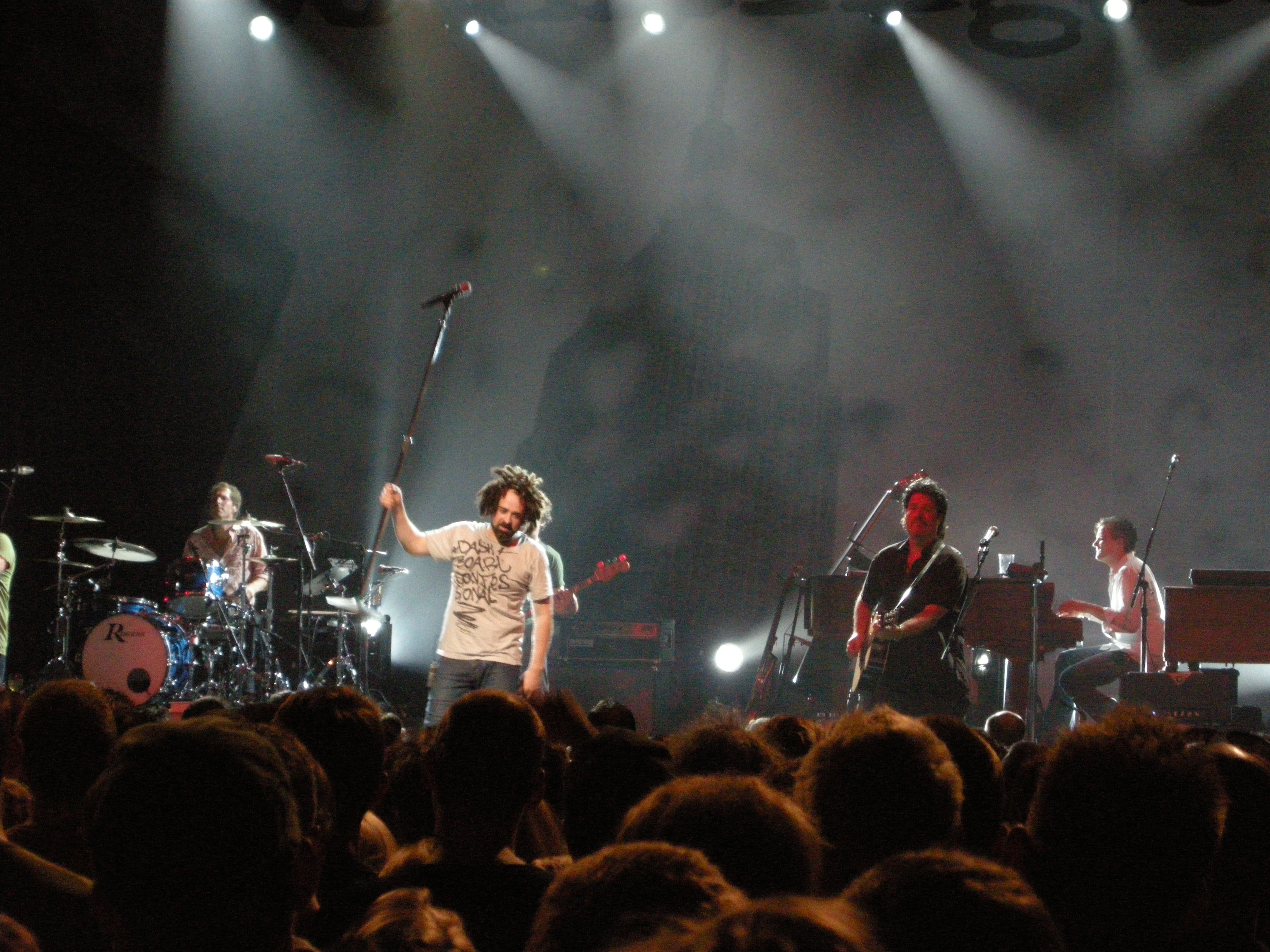 Counting Crows at Ancienne Bruxelles